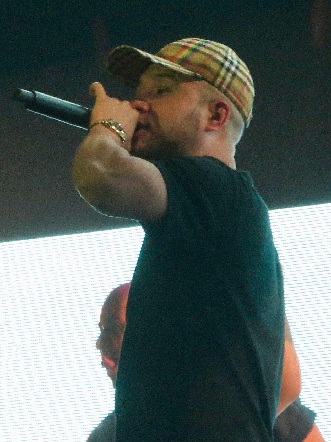 Jax Jones in a concert